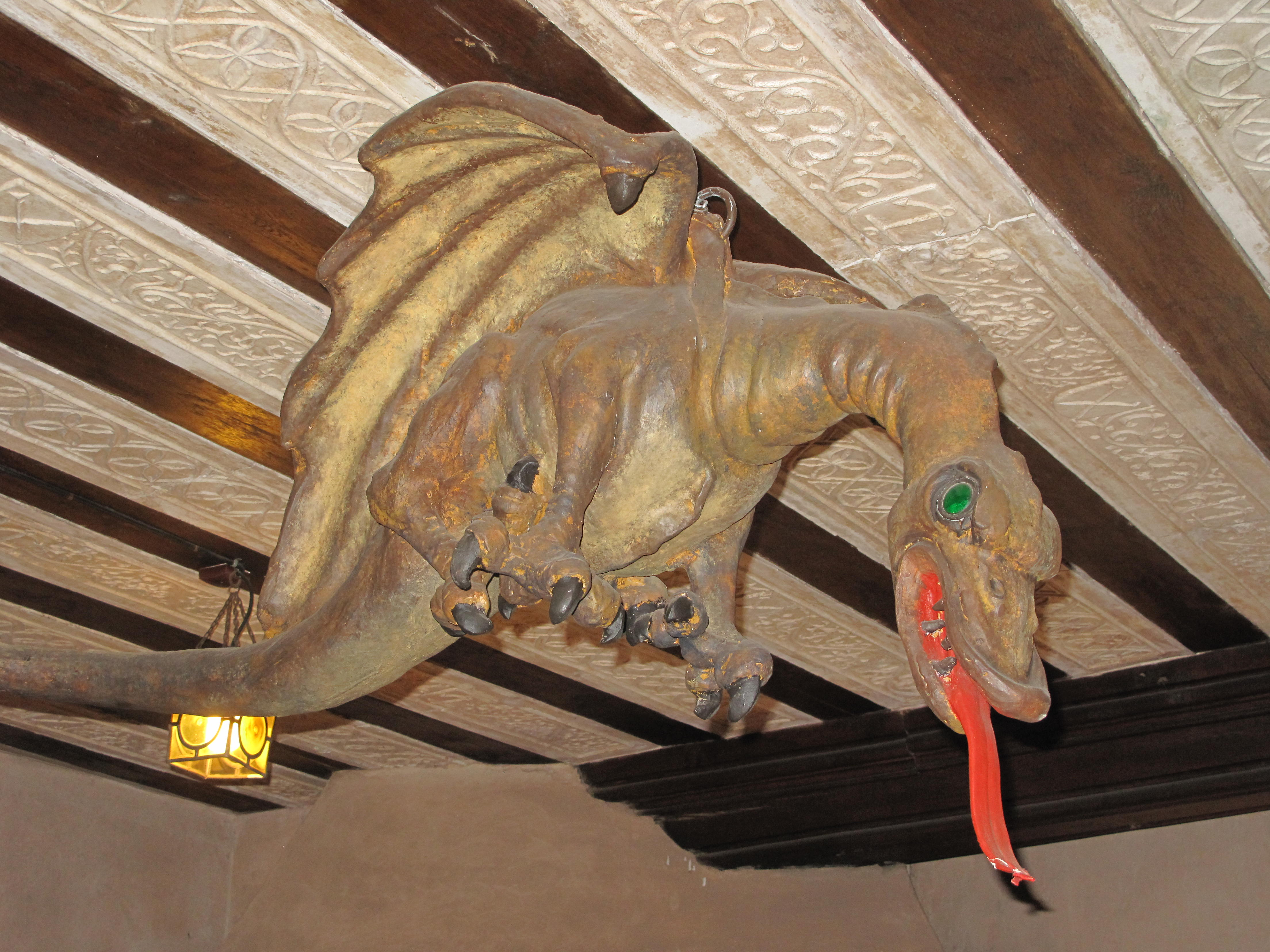 Sculpture of the Graoully in the Lorraine room in the castle of Haut-Koenigsbourg (Bas-Rhin, France). It is a mythical dragoon that Saint-Clement should fight from Metz.